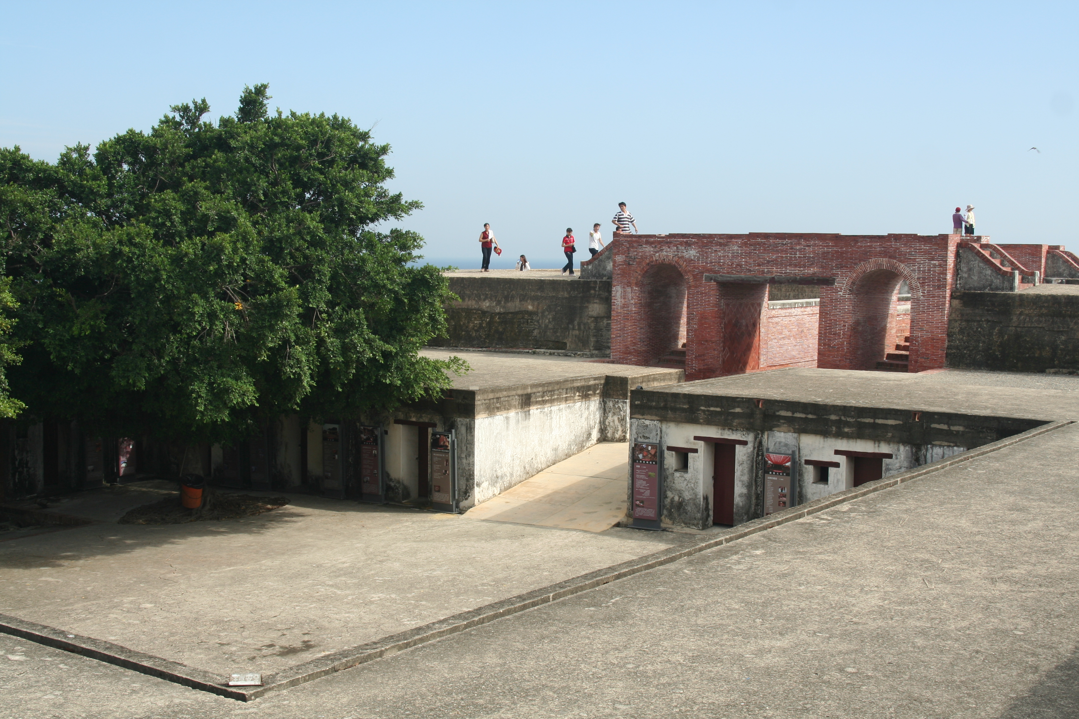 Barracks and the gate leading to the main battery, Fort Qihou, Gaoxiong, Taiwan